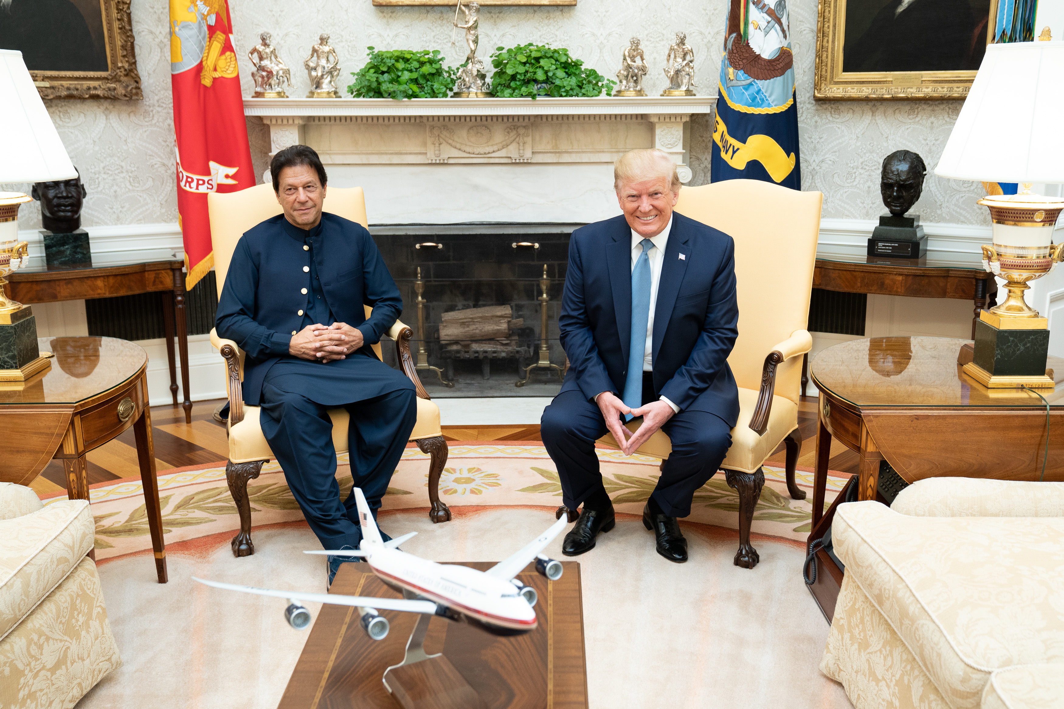 President Donald J. Trump and Prime Minister Imran Khan of the Islamic Republic of Pakistan participate in a bilateral meeting Monday, July 22, 2019, in the Oval Office of the White House. (Official White House Photo by Shealah Craighead)